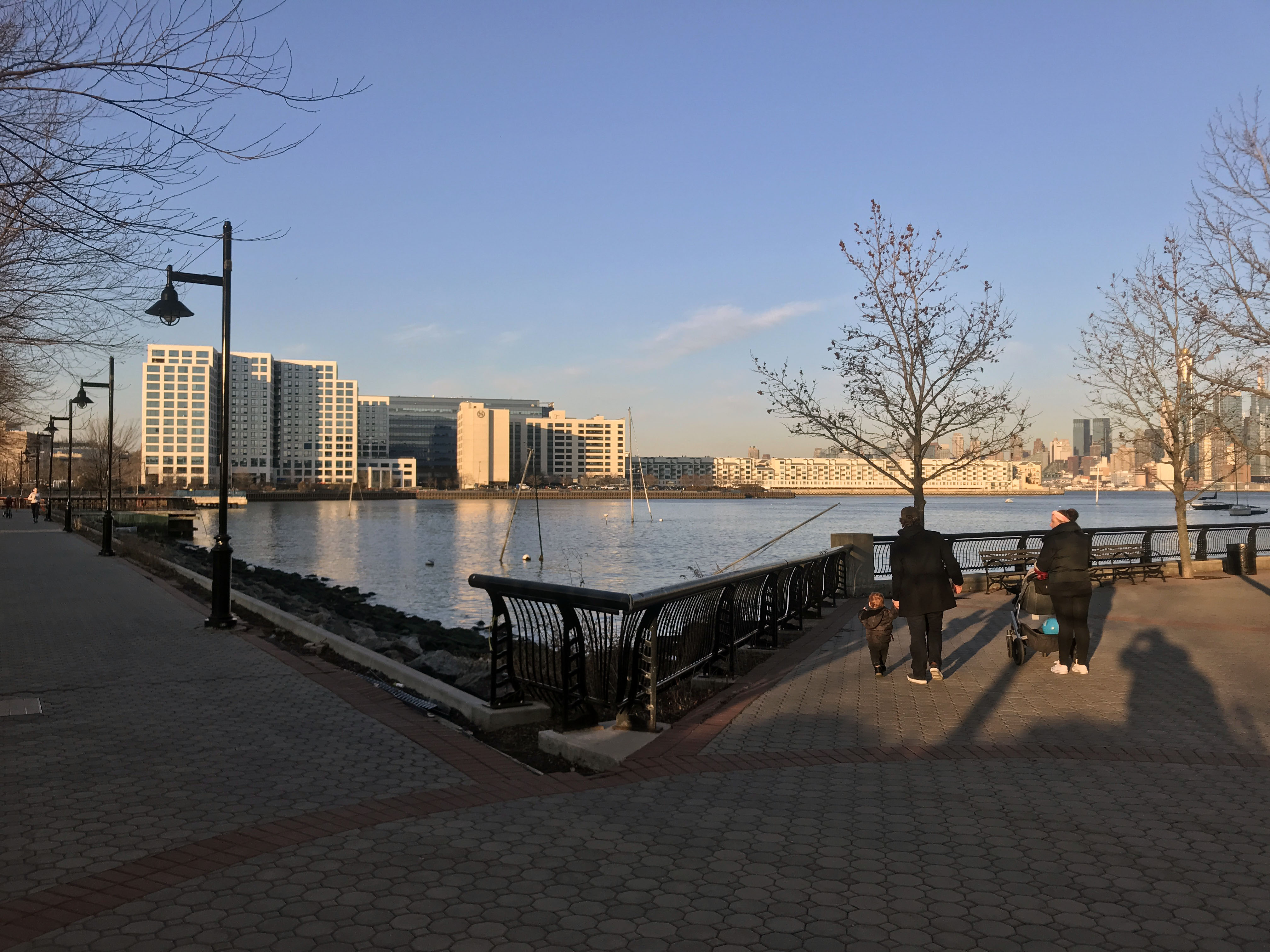 Shot of Weehawken Cove on February 23, 2020. This photo was created by Luigi Novi. It is not in the public domain, and use of this file outside of the licensing terms is a copyright violation.